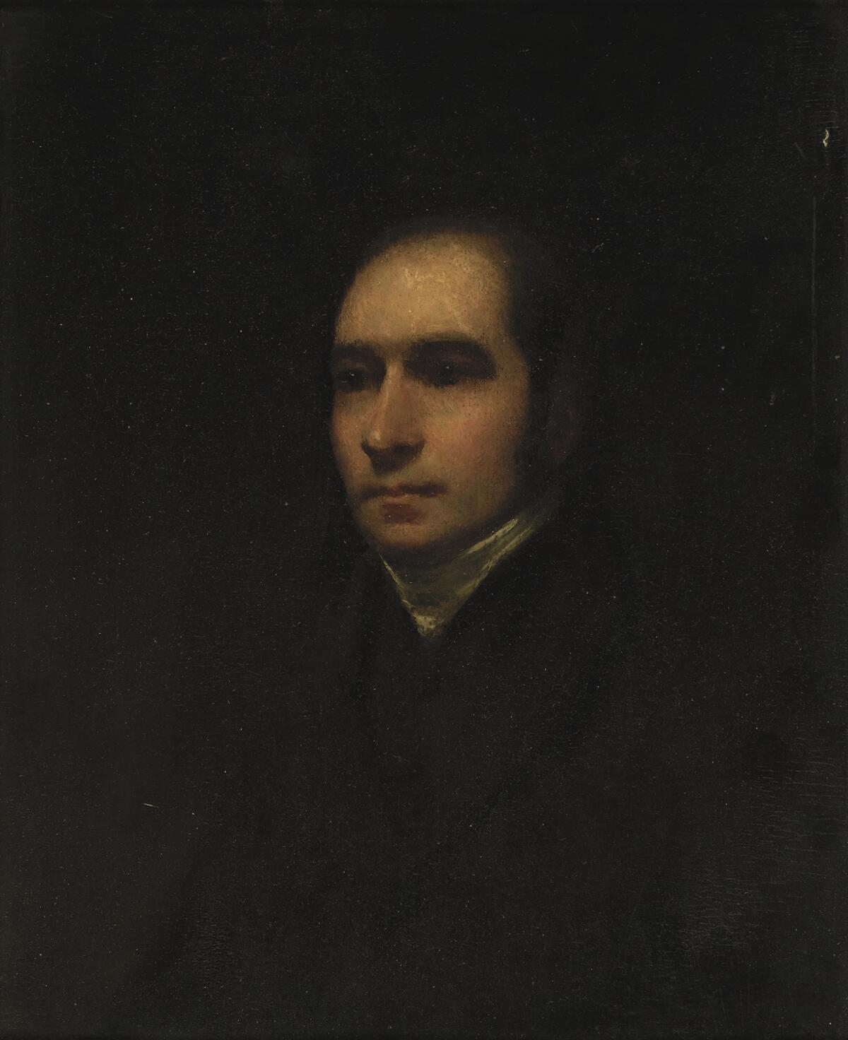 A painting from the Framed Works of Art collection at the National Library of wales.